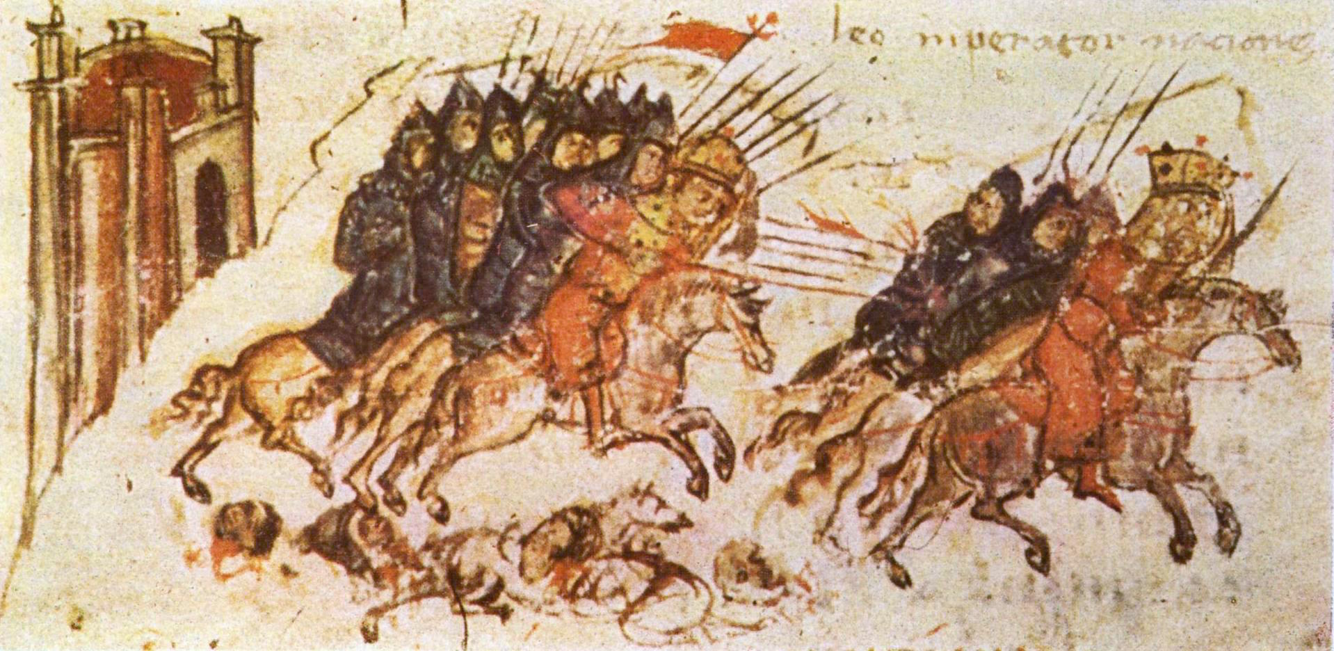 Miniature 53 from the Constantine Manasses Chronicle, 14 century: The defeat of emperor Michael I Rangabe in the battle of Versinikia in 813 year.